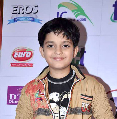 Namit Shah at the promotions of 'Main Krishna Hoon'